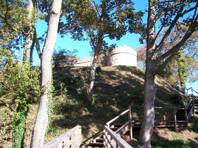 Castell Aberlleiniog from the moat bridge